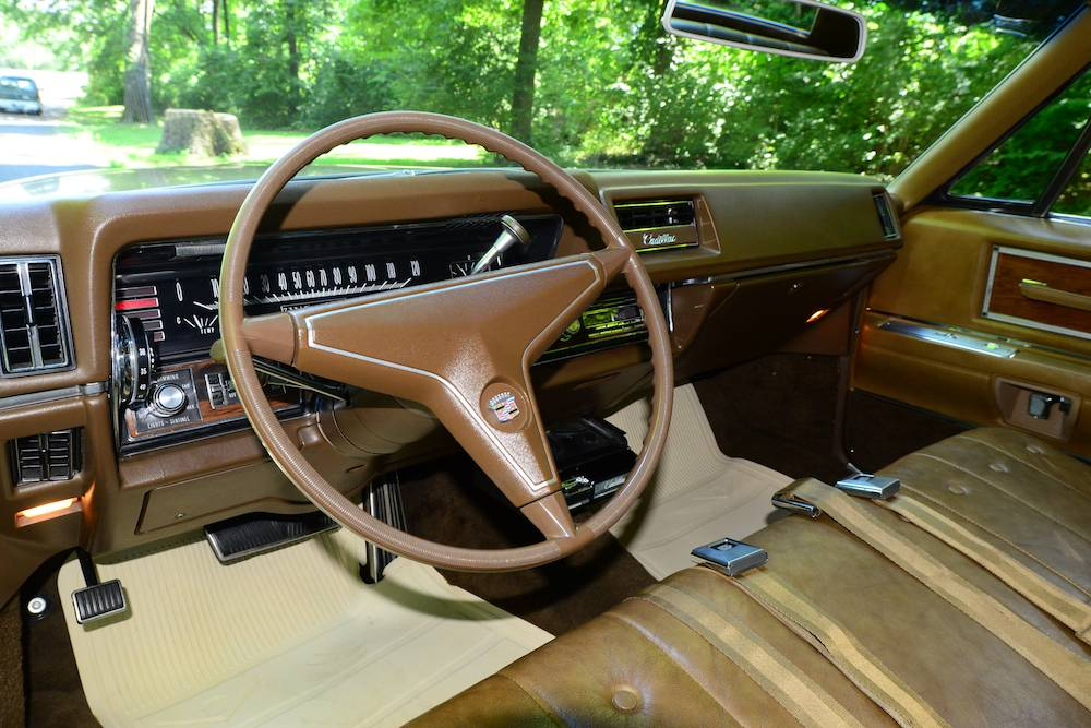 This is a picture of a vehicle (name of it is on the file name).